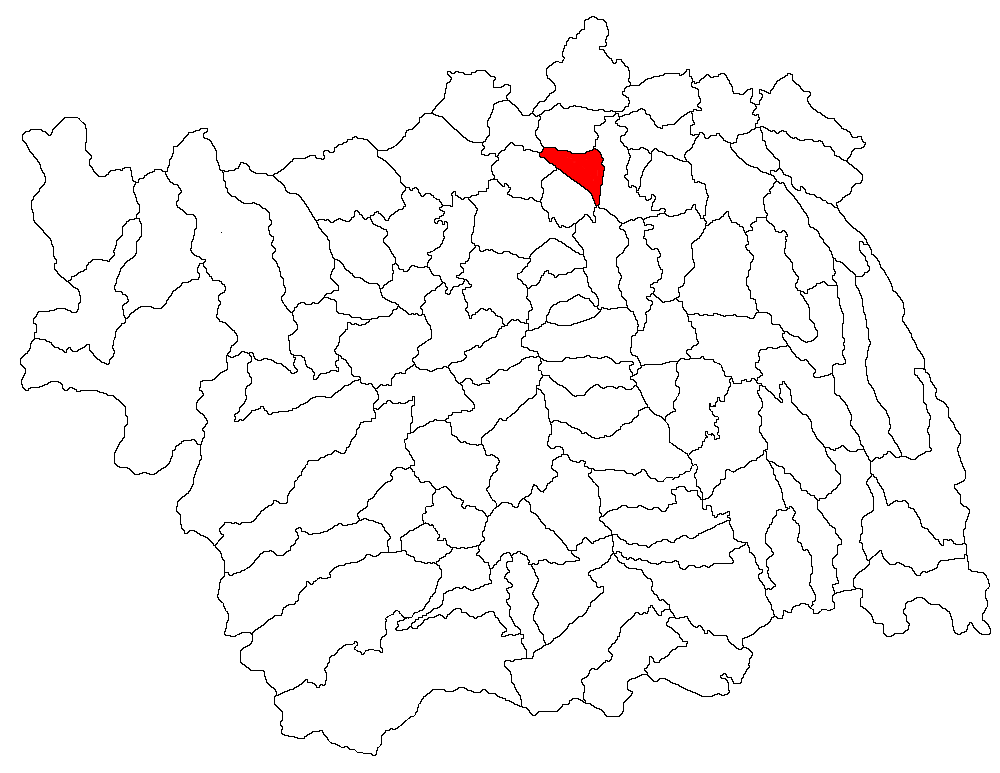 Locator map of the commune of Itești, Bacău